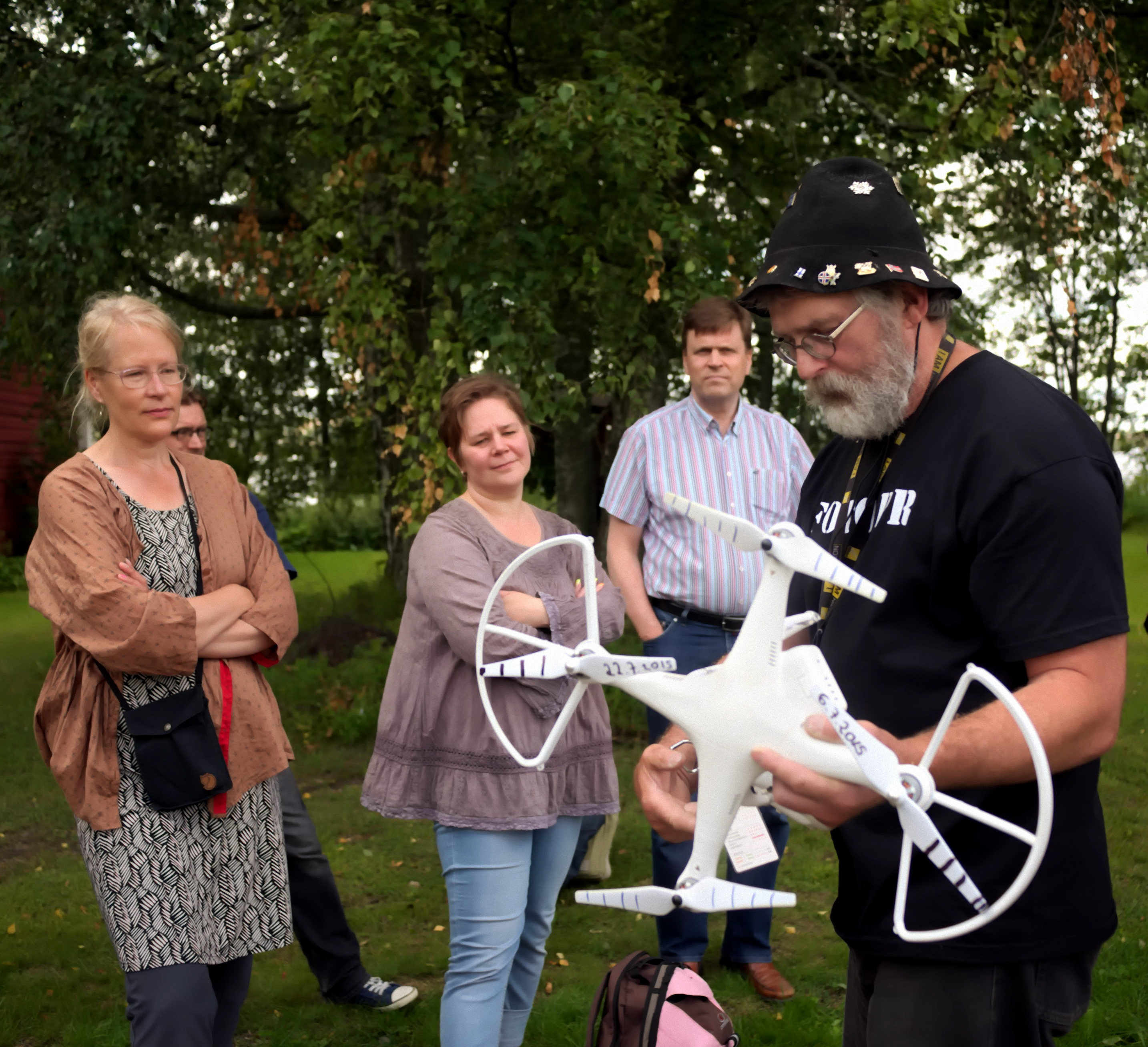 Jarmo Mäntykangas in Joutseno 2015